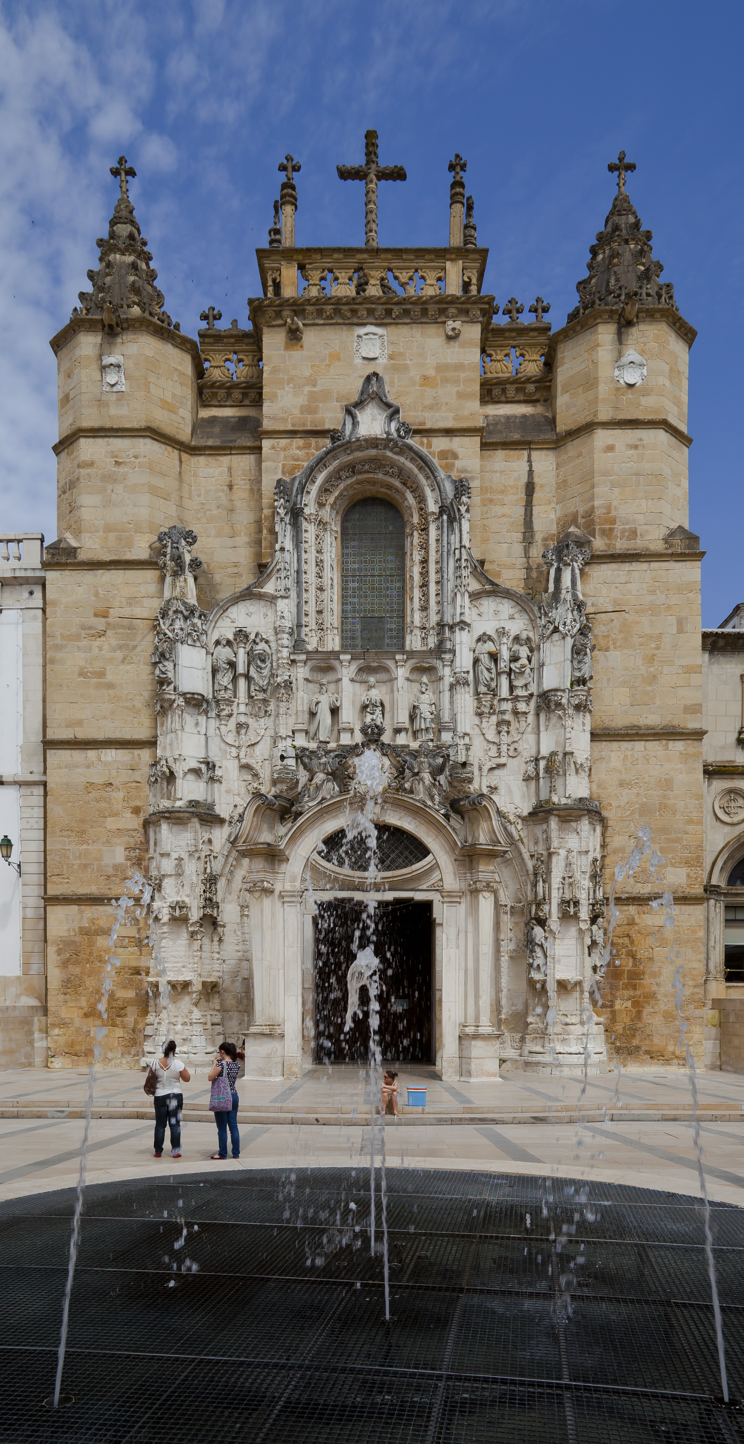 Monastery of Santa Cruz, Coimbra, Portugal